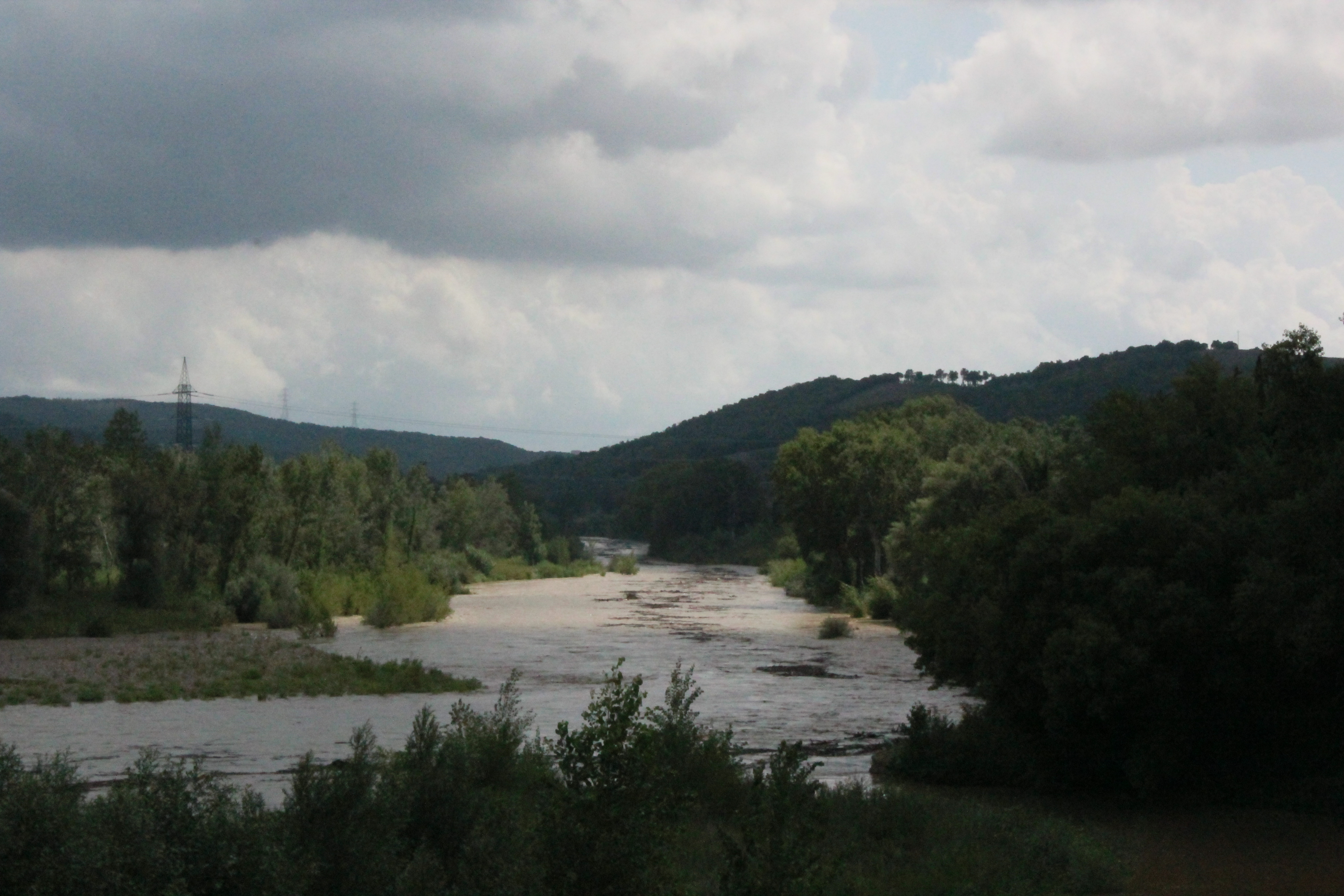 The Ombrone River in Paganico, part of Civitella Paganico, Maremma, Province of Grosseto, Tuscany, Italy